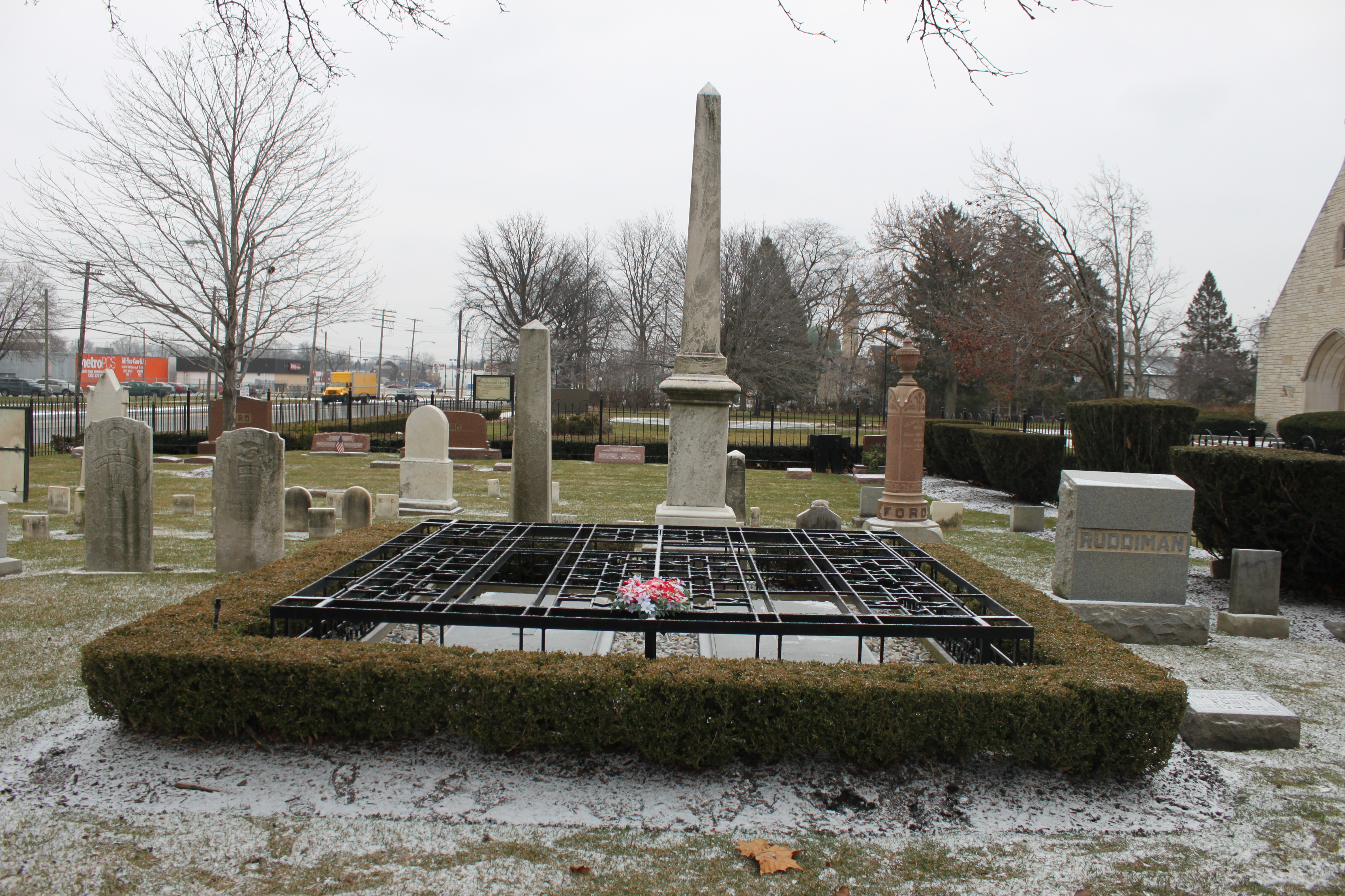 Henry Ford grave, Ford Cemetery, 15801 Joy Road, Detroit, Michigan